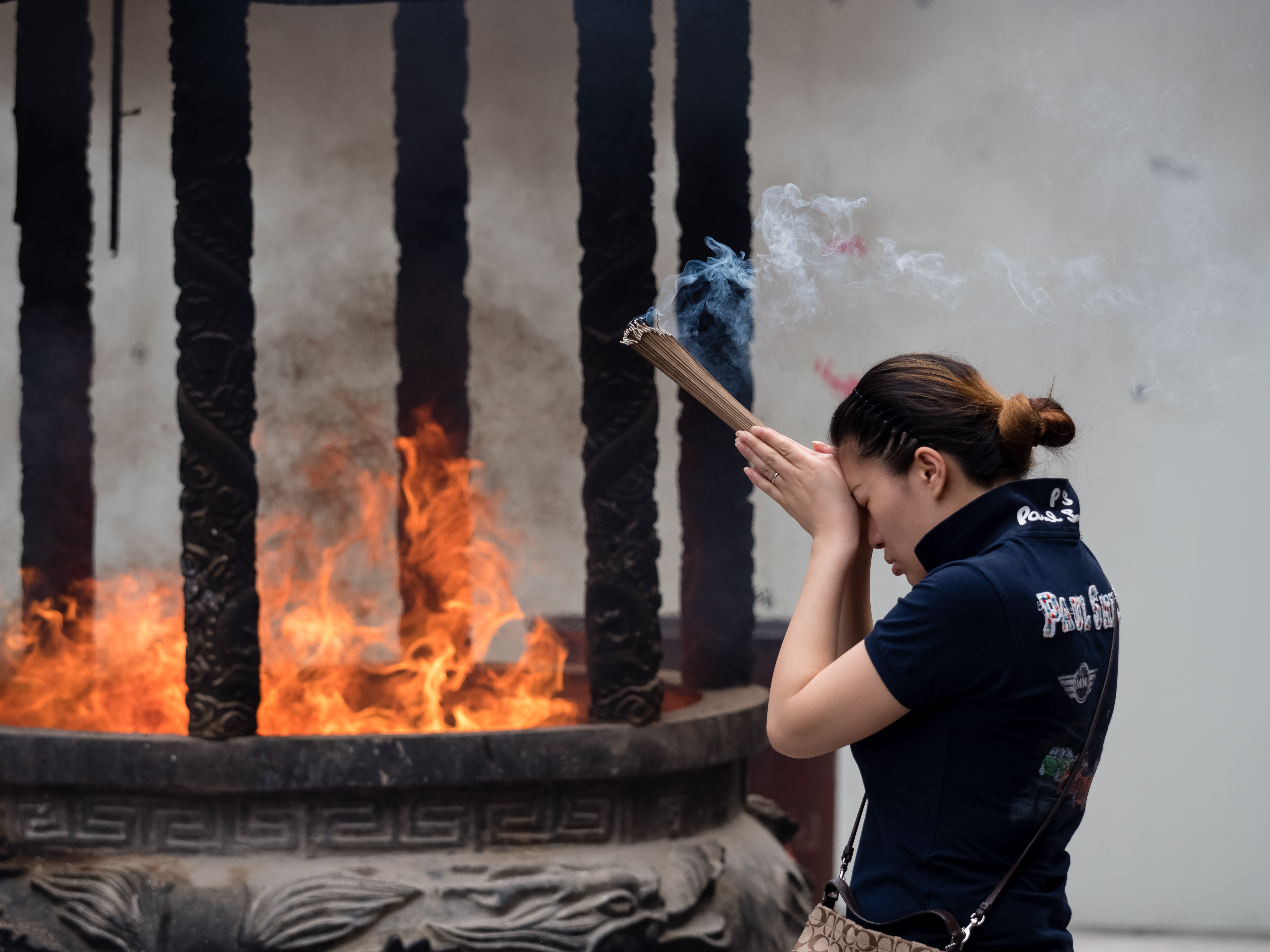 Woman burning incense at Jade Buddha Temple in Shanghai